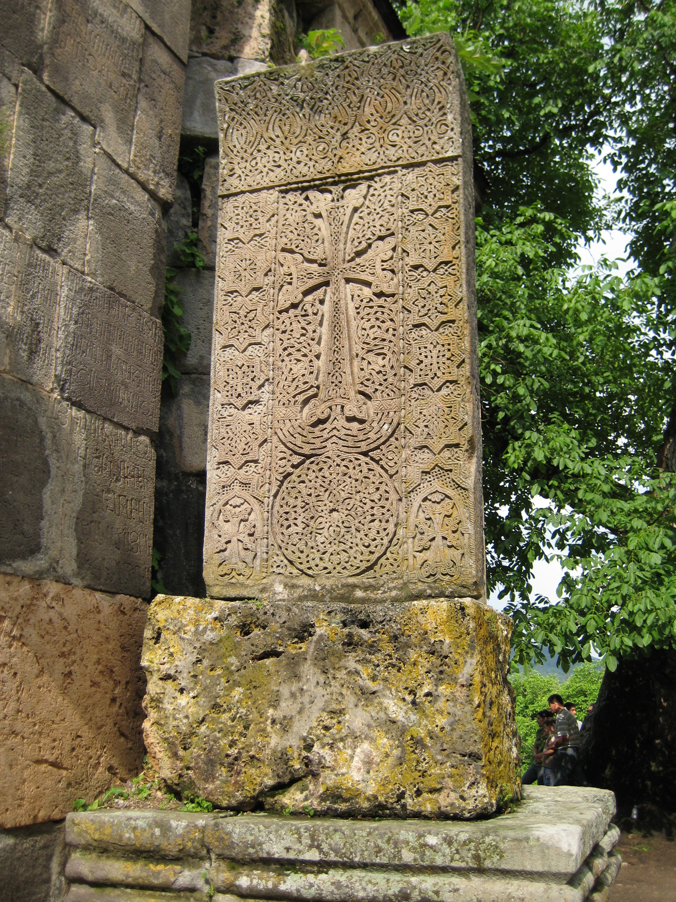 Photo of a khachkar taken at Haghartsin monastery near Dilijan, Armenia.